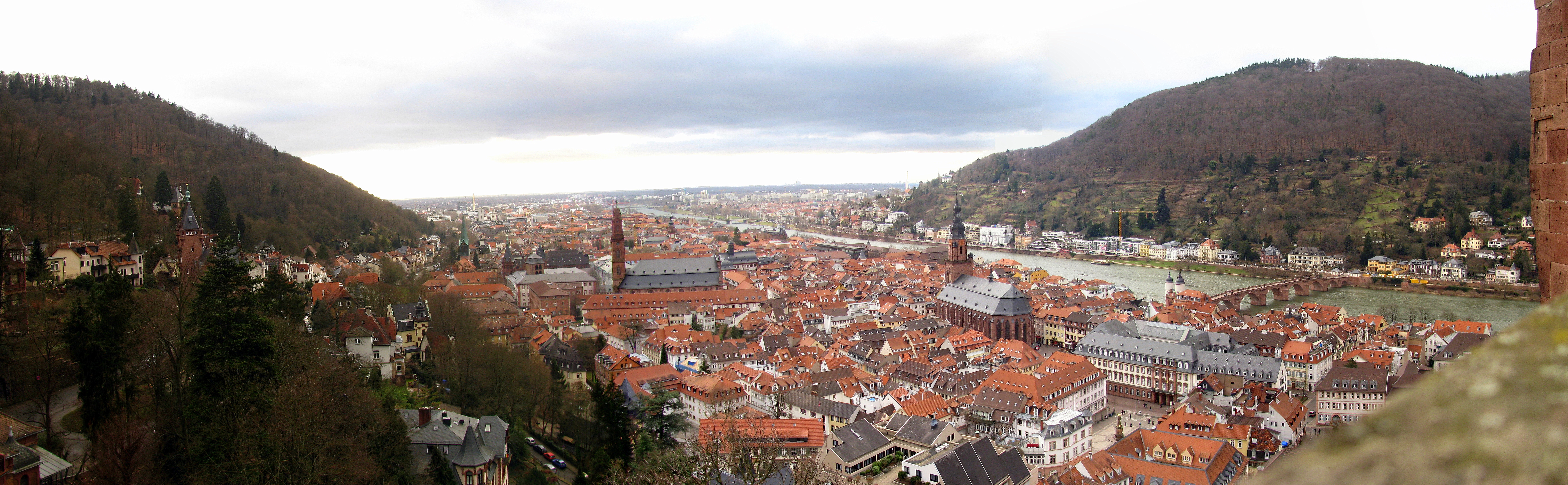 Panorama view from the Heidelberg Castle to the oldtown&Neckar river